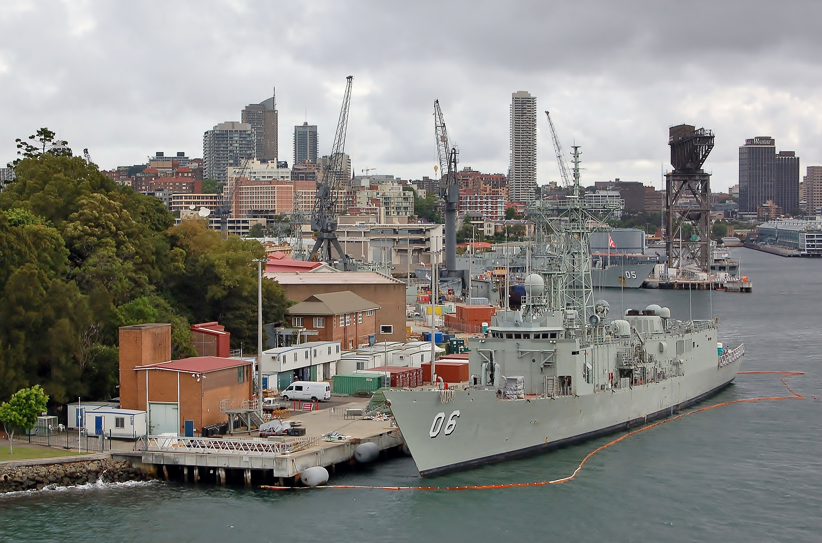 View of HMAS Kuttabul, part of the RAN's Fleet Base East, taken from a passing P&O Australia cruise ship, Pacific Sun. In the foreground is the Adelaide-class frigate HMAS Newcastle (FFG 06) and in the background her sister ship HMAS Melbourne (FFG 05).